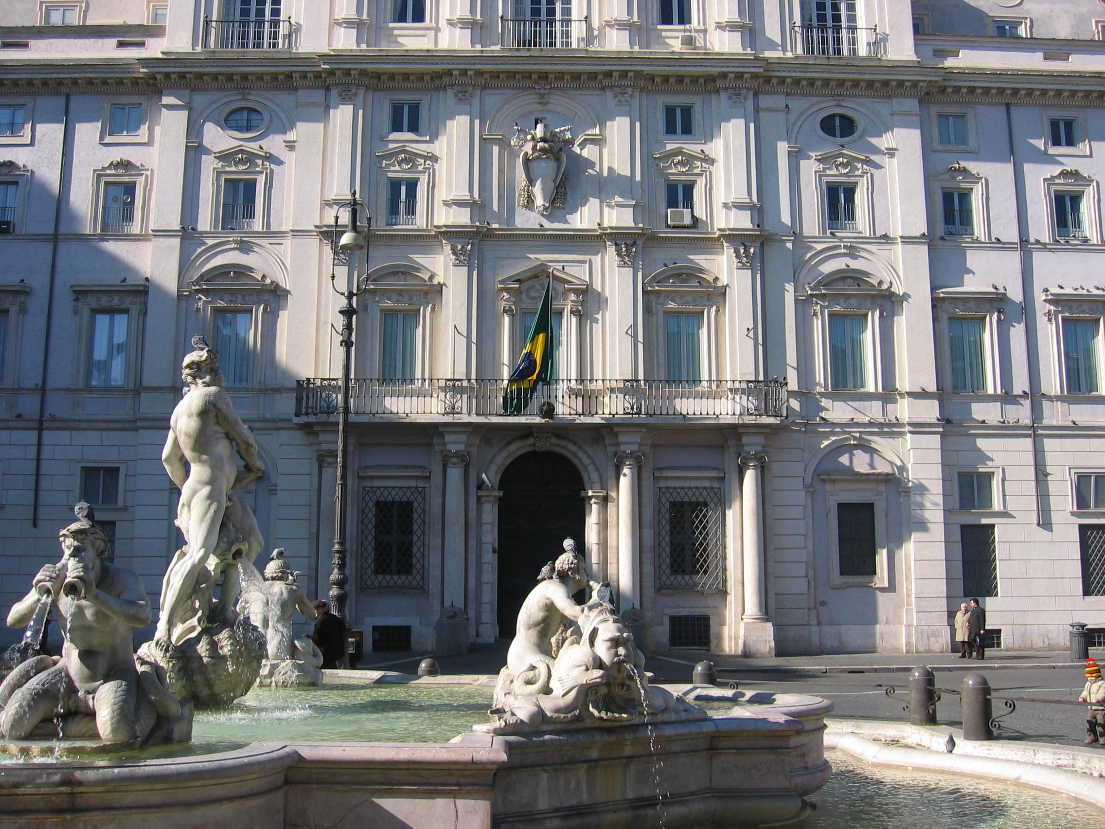 Brazilian Embassy in Rome, Italy.